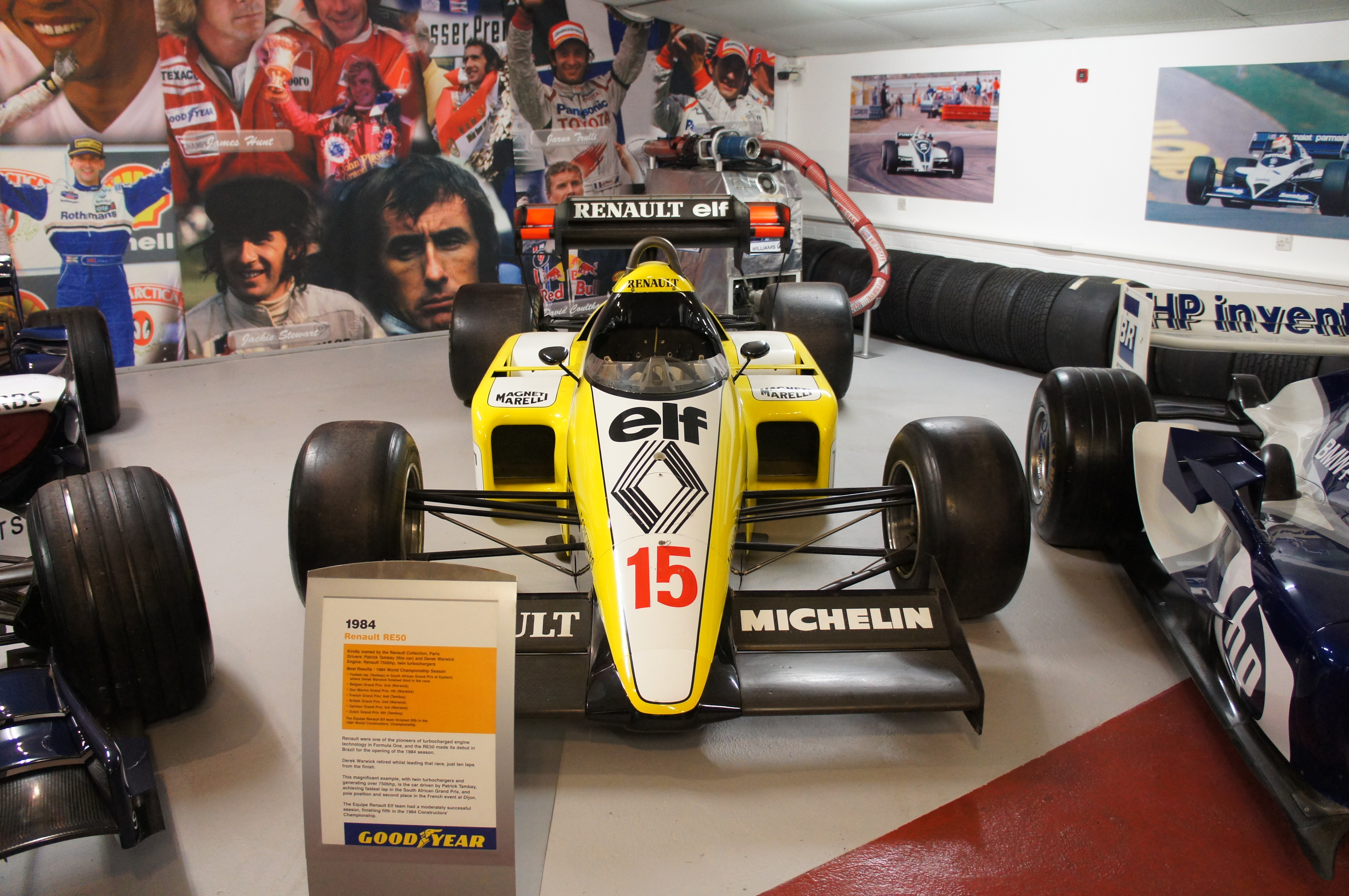 Renault RE50 at Donington Park.